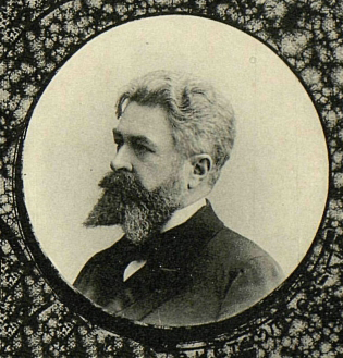 Victor Ivanovich Stempkovskiy a member of the Third and Fourth Russian State Dumas